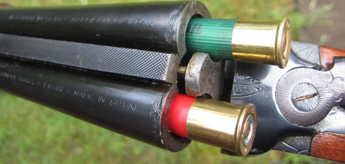 A picture of .410 shells being loaded into a SxS.